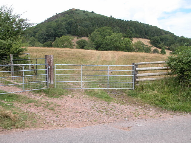 Bryn Arw. Viewed from the entrance to Ty'n-y-wern, Bryn Arw, rising to 384m is an outlier of the Black Mountains.